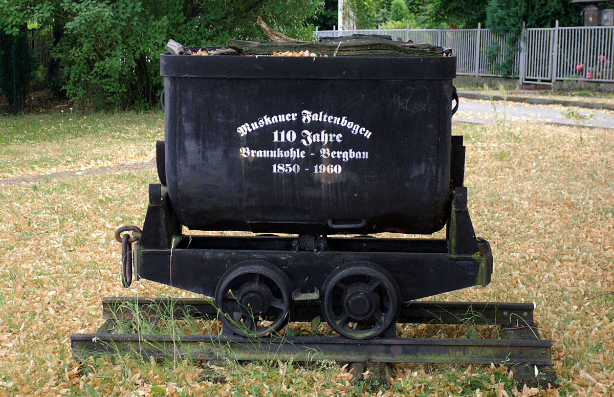 Old mining cart in Bohsdorf, Brandenburg, Germany